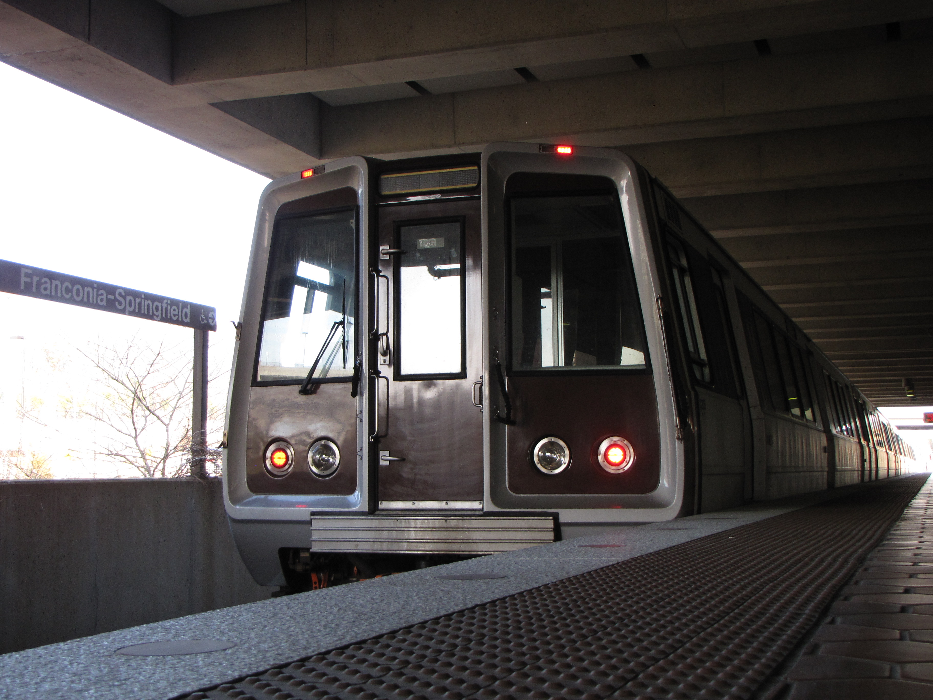 Breda 3205 on the outbound track at Franconia-Springfield station in Fairfax County, Virginia.